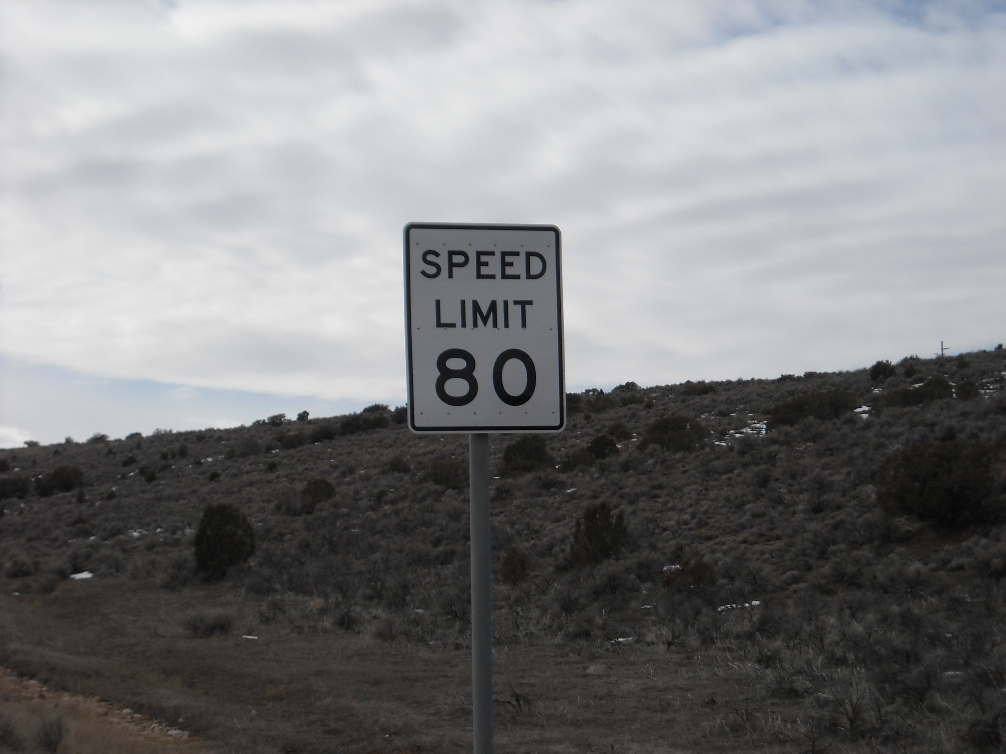 Eighty Mile Per Hour speed limit sign in Juab County, Utah.